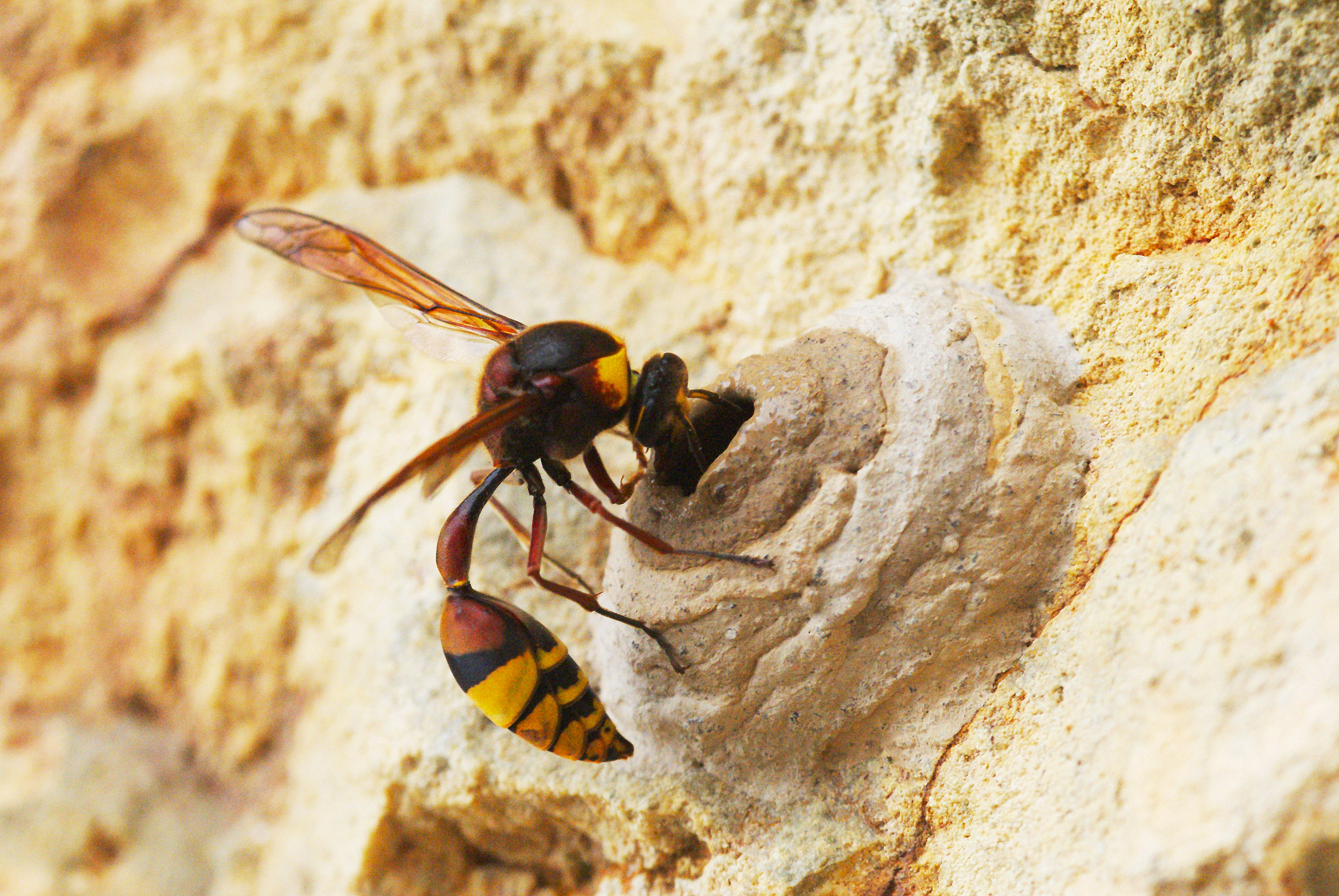 Potter Wasp building mud nest near completion, France